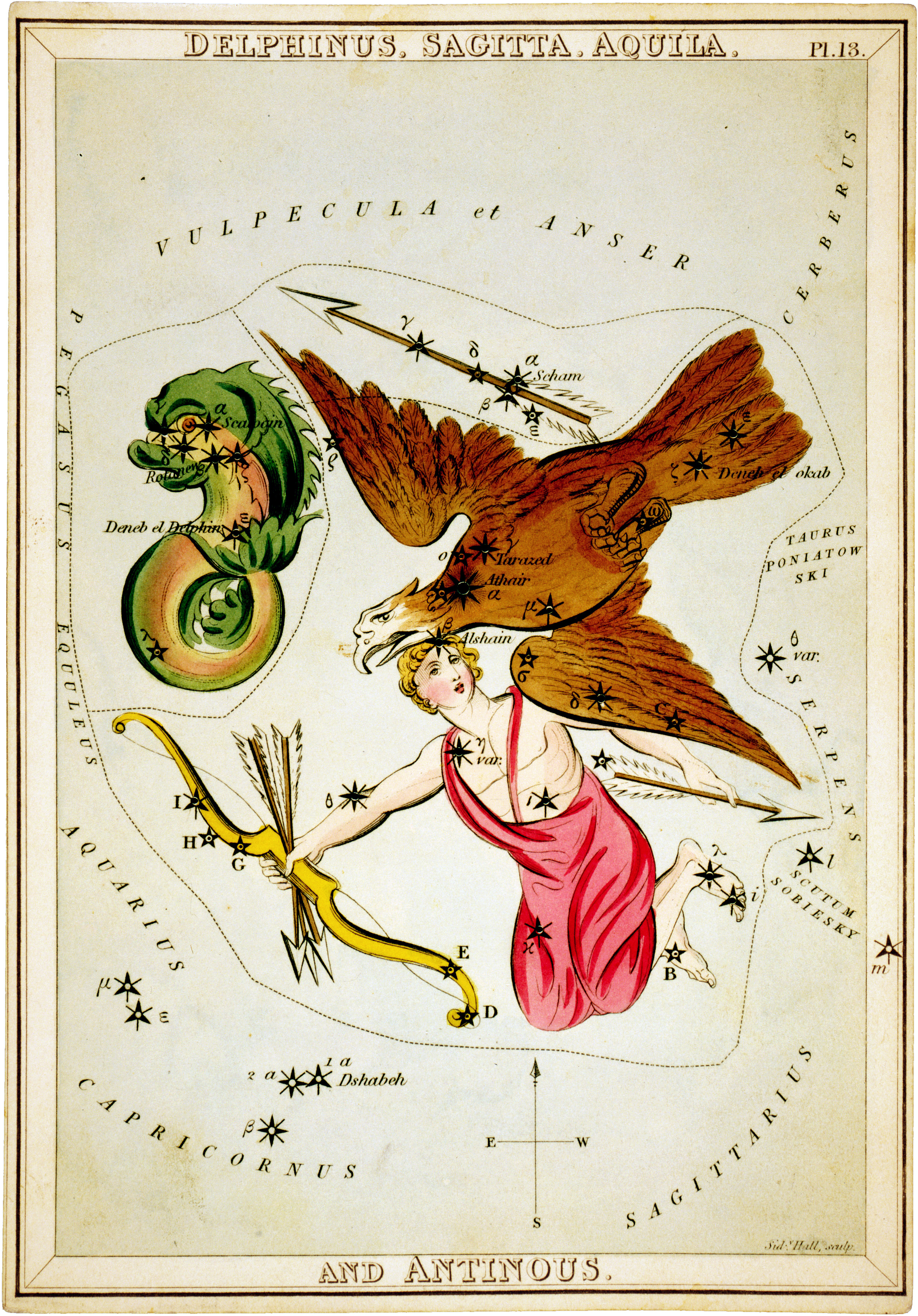 "Delphinus, Sagitta, Aquila, and Antinous", plate 13 in Urania's Mirror, a set of celestial cards accompanied by A familiar treatise on astronomy ... by Jehoshaphat Aspin. London. Astronomical chart showing Antinous with bow and arrows, an eagle, and a dolphin forming the constellations. 1 print on layered paper board : etching, hand-colored.